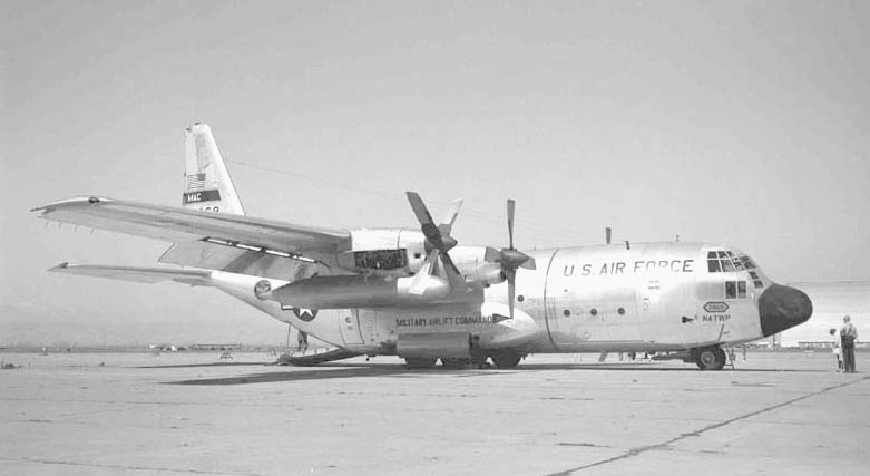 C-130Emofffett66